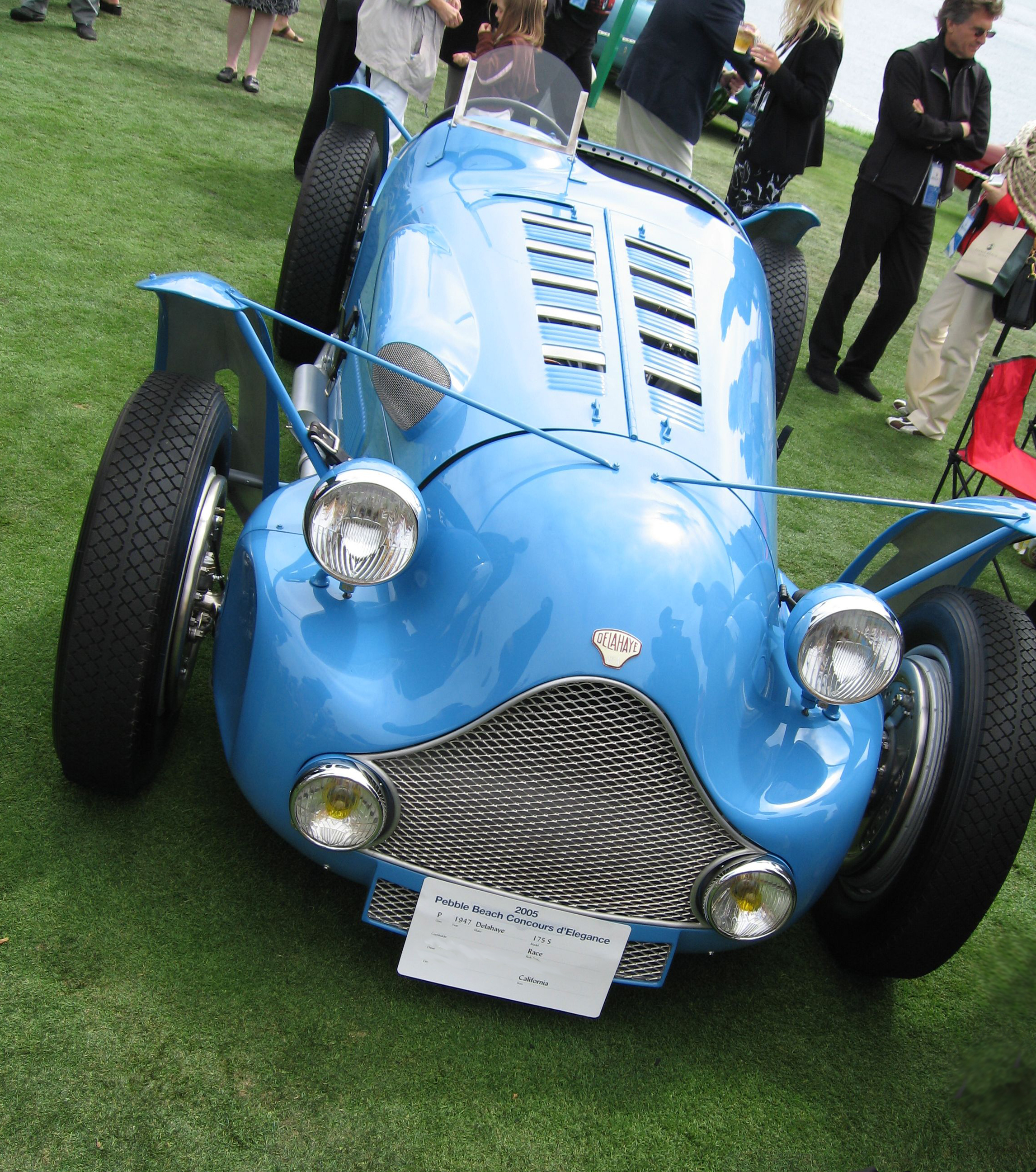 Delahaye 175S single seater racing version (1947) at Pebble Beach, 2005.